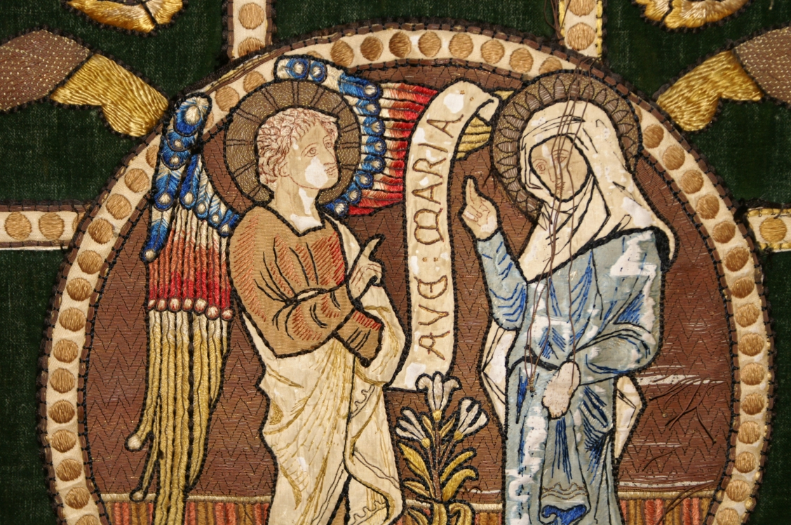 Annunciation roundel at the centre of a Victorian altar frontal: Church of England parish church of All Saints, North Moreton, Oxfordshire (formerly Berkshire).